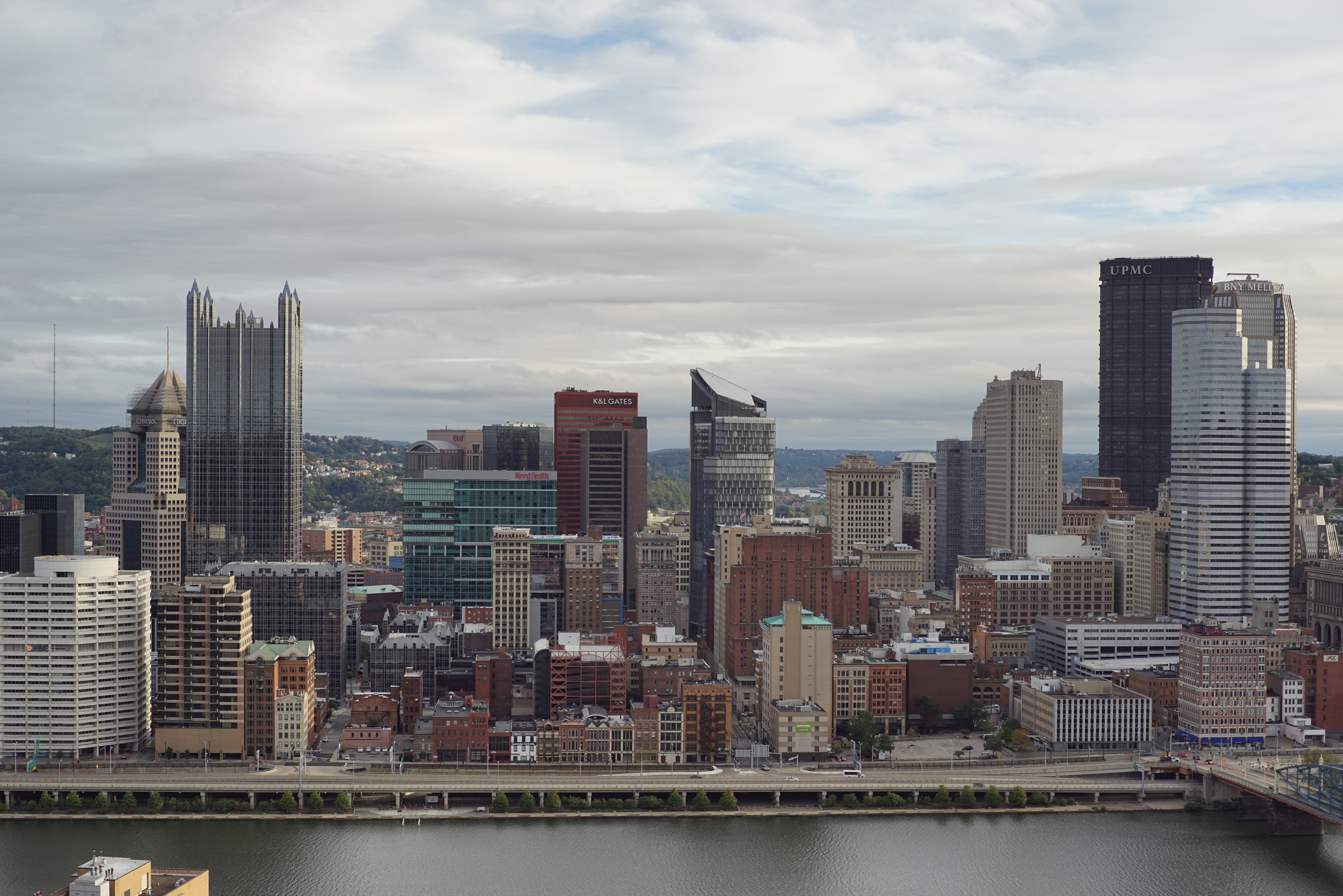 Skyline of Pittsburgh from Mount Washington.